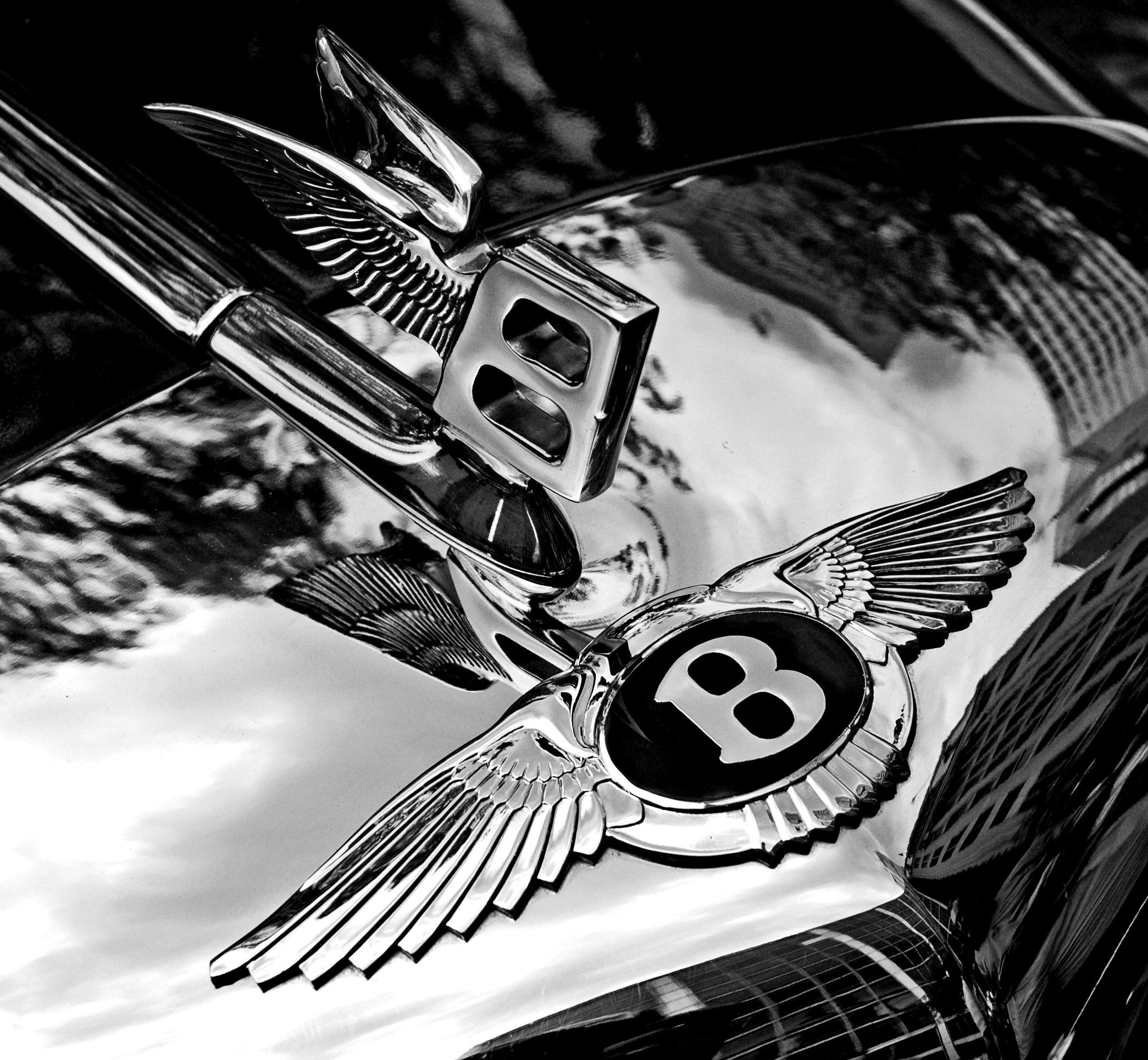 A Bentley badge and hood ornament atop a 1960 S-2 4-Door Saloon. See also the original color version and a larger B/W version.